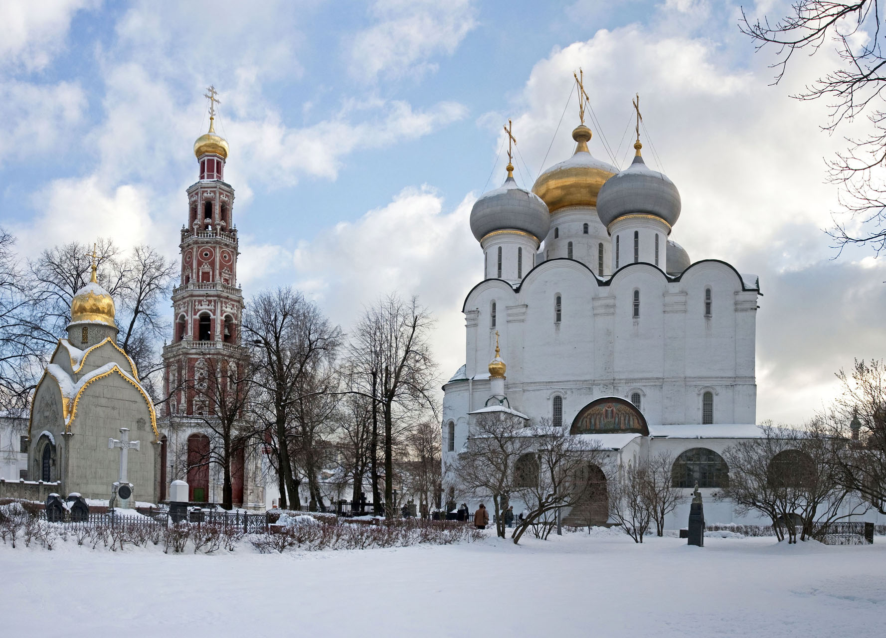 Novodevichy Convent / Moscow, Russia